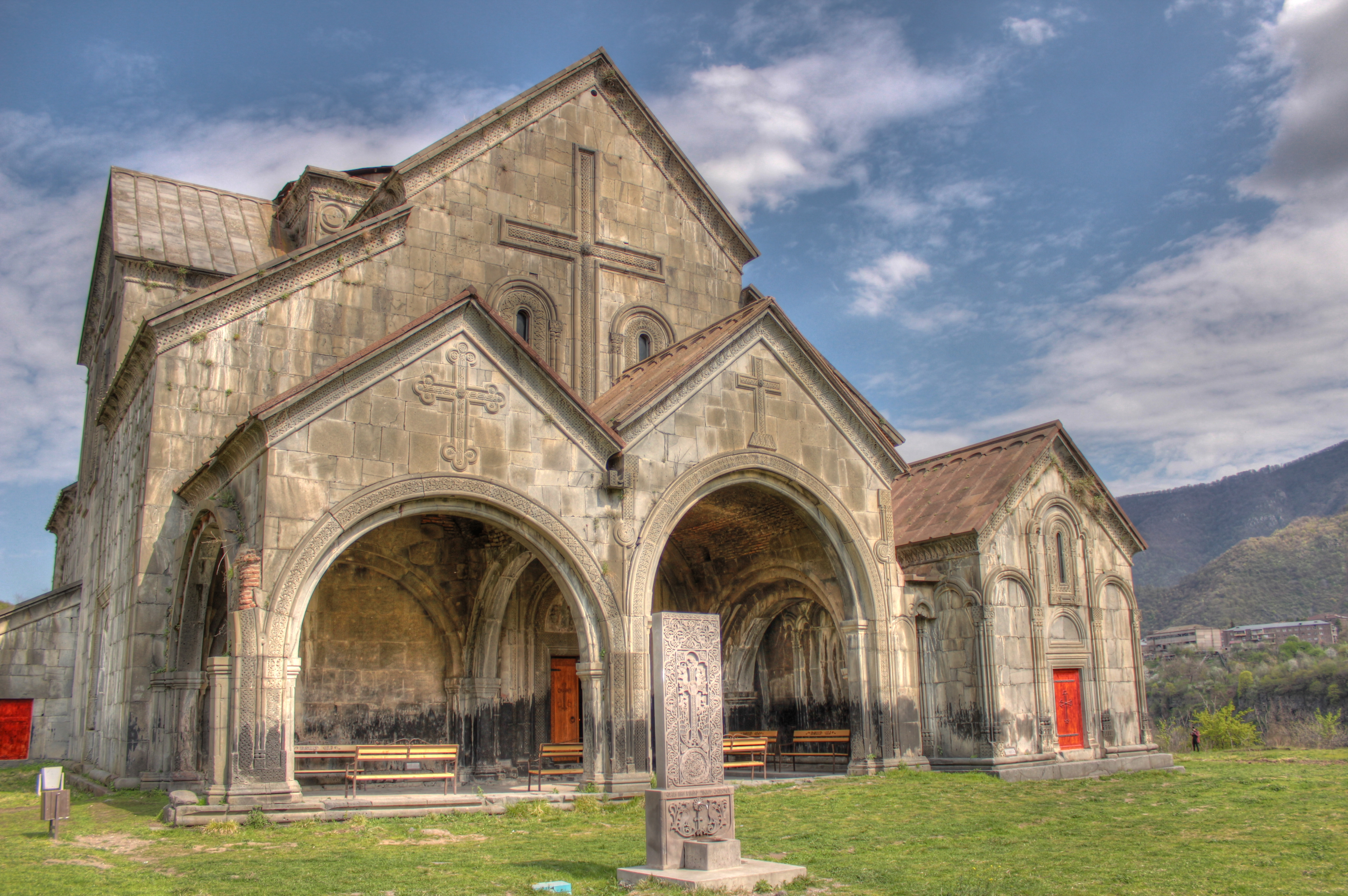 Akhtala Monastery, Armenia